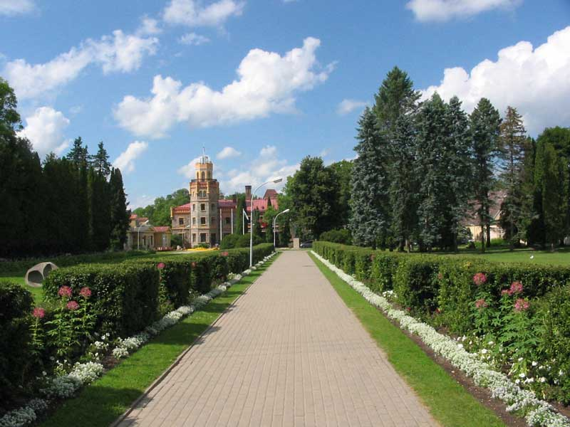 Garden and front of Sigulda Castle, Sigulda, Latvia.